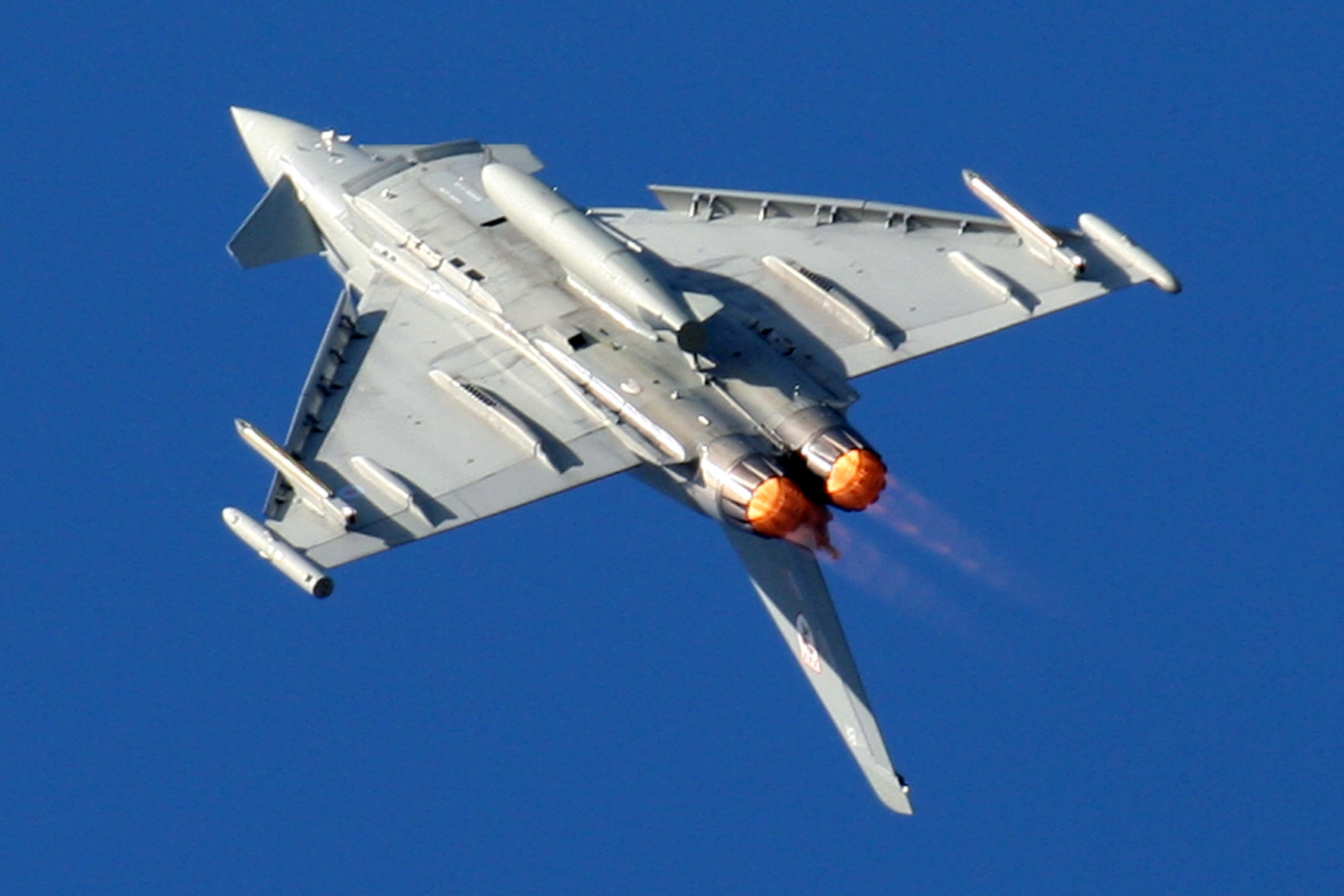 Eurofighter Typhoon T1 UK Air Force ZJ810 / BI C/N BT011 Trainer